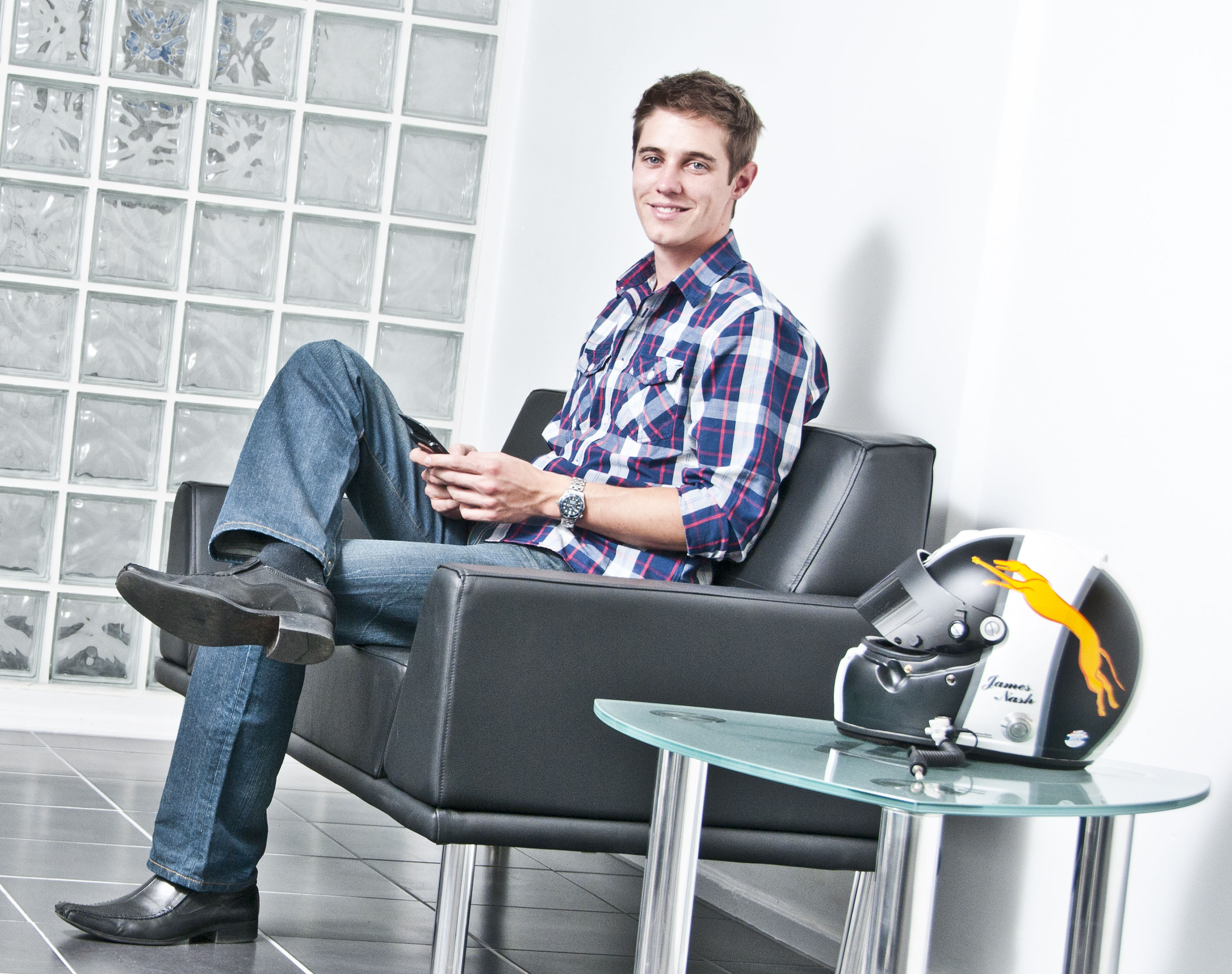 2011 British Touring Car Independent Champion